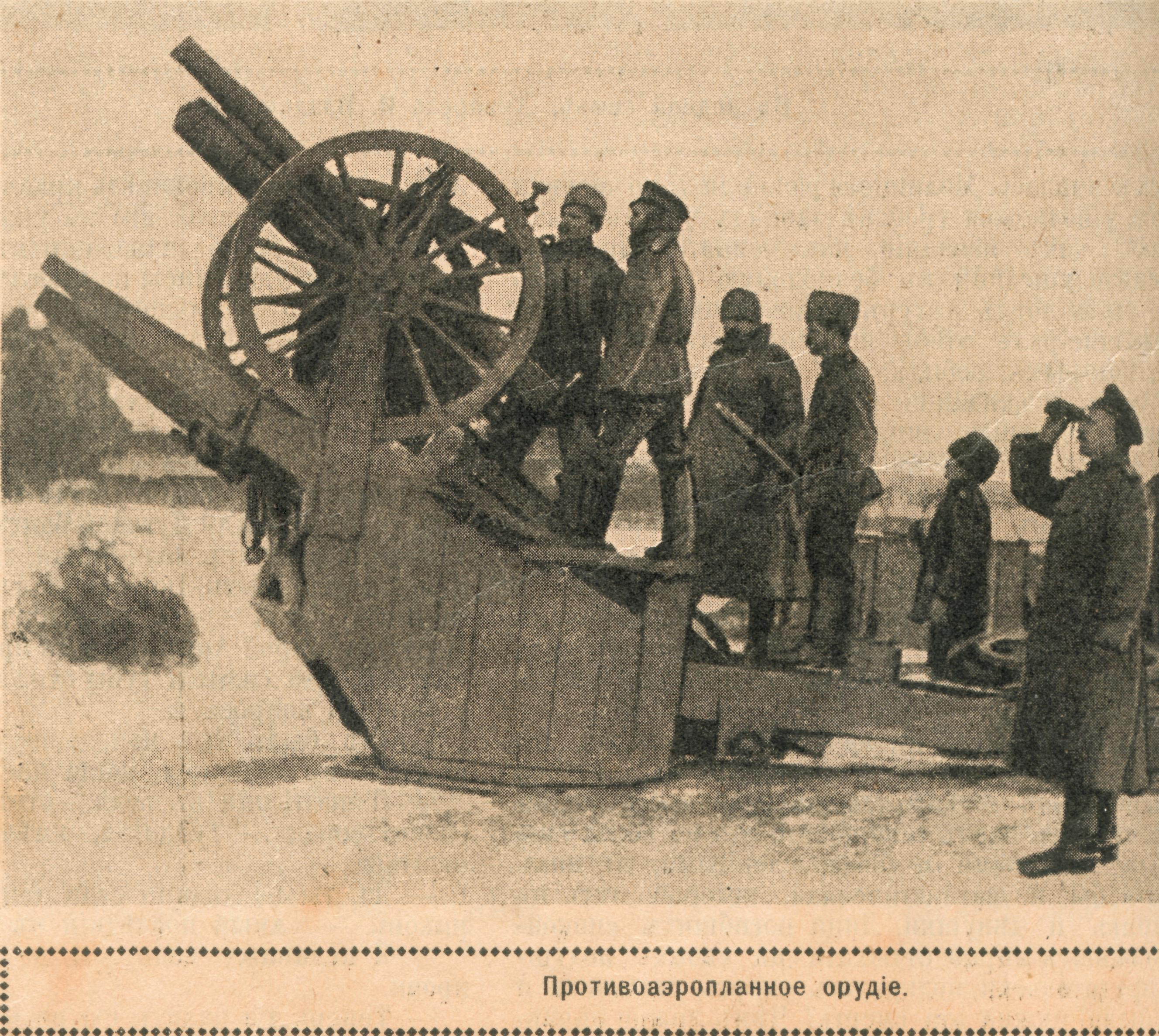 Russian 3 inch divisional gun in anti-aircraft mount at the Russian-German front, 1916. Caption was: «Противоаэропланное орудие», anti-aircraft cannon.